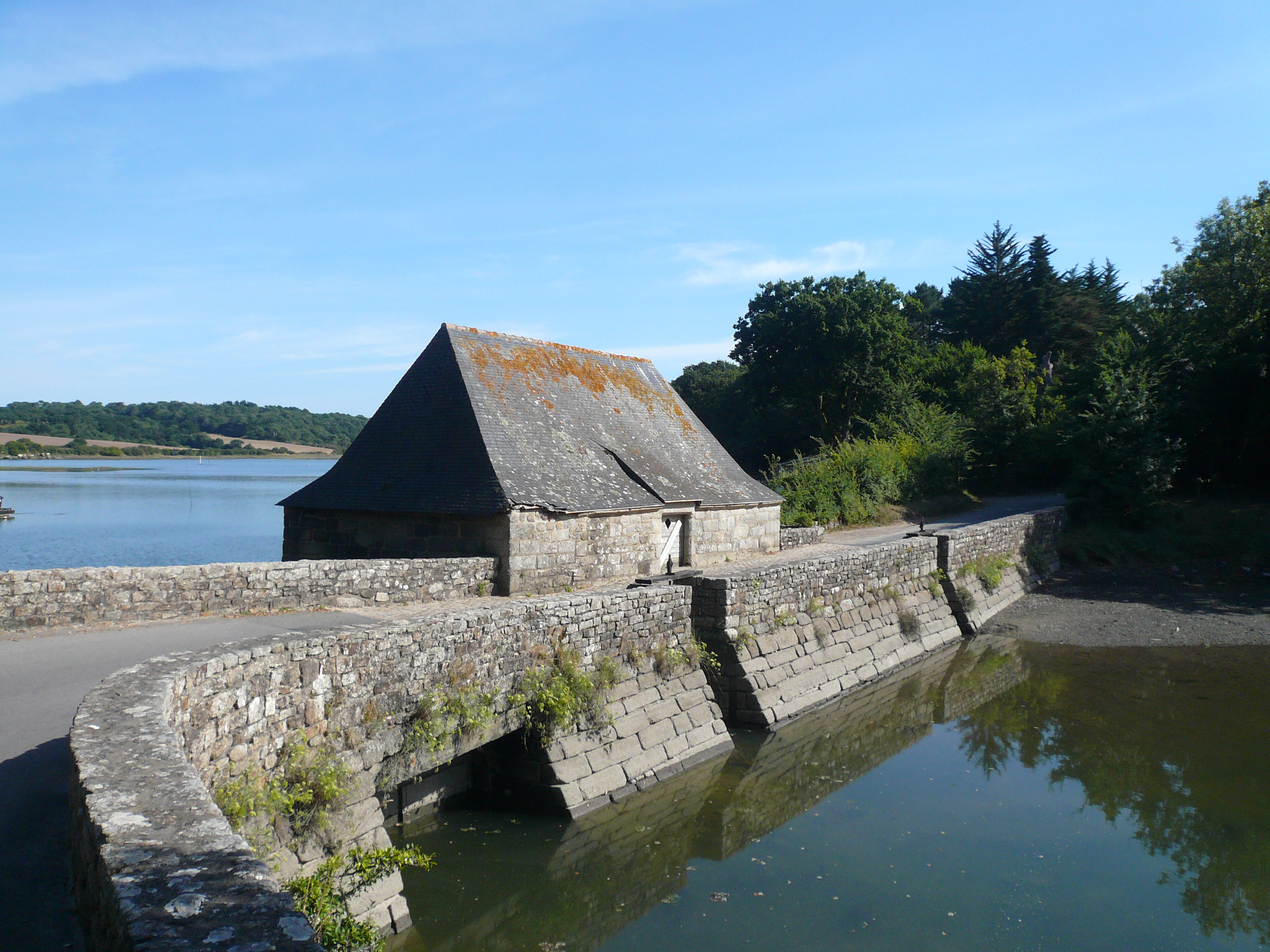 Tide mill of Henan in commune of Nevez, Finistère, Brittany, France.